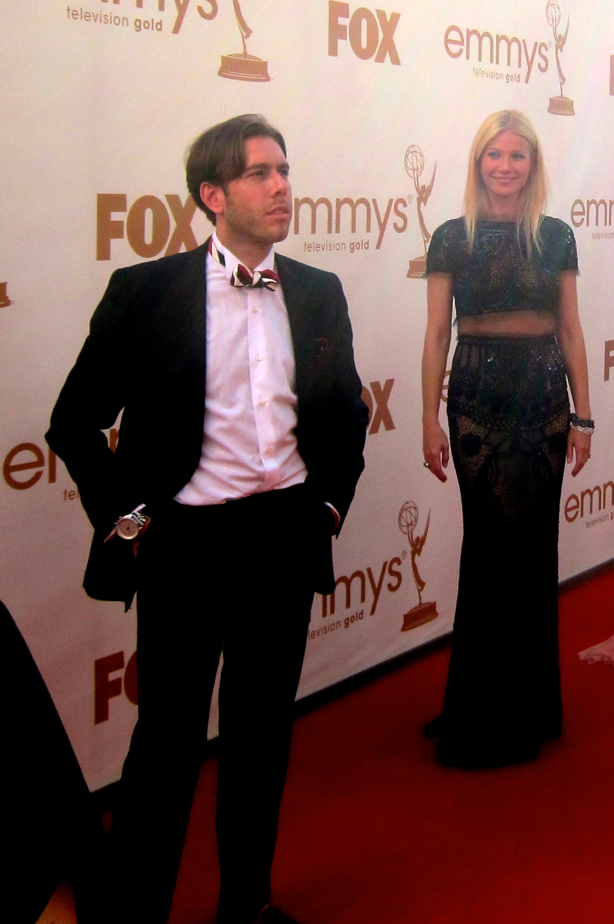 Justin Ross Lee along with Gwyneth Paltrow pose on the red carpet at the 63rd Primetime Emmy® Awards